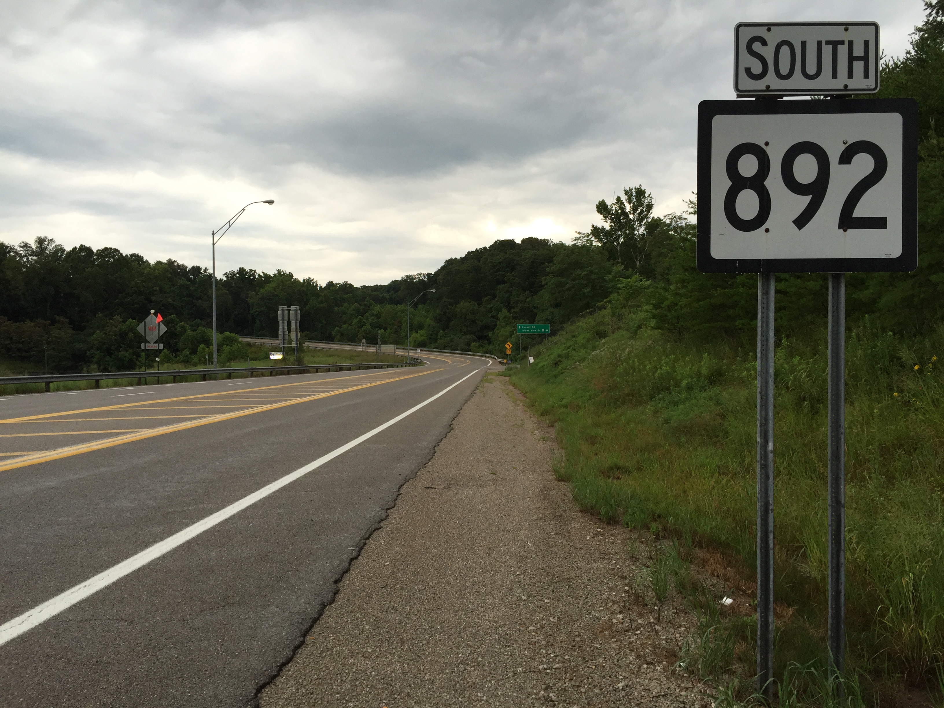 View south along West Virginia State Route 892 (Dupont Road) at U.S. Route 50 (Northwestern Turnpike) in Blennerhassett, Wood County, West Virginia